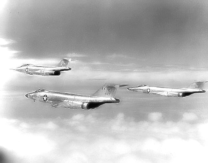 Three U.S. Air Force McDonnell F-101 Voodoos in flight: F-101A-35-MC (s/n 54-1471, center left), RF-101A-25-MC (s/n 54-1501, right), and NF-101B / F-101B-35-MC (s/n 56-0232 / 1st and only B-Model prototype).